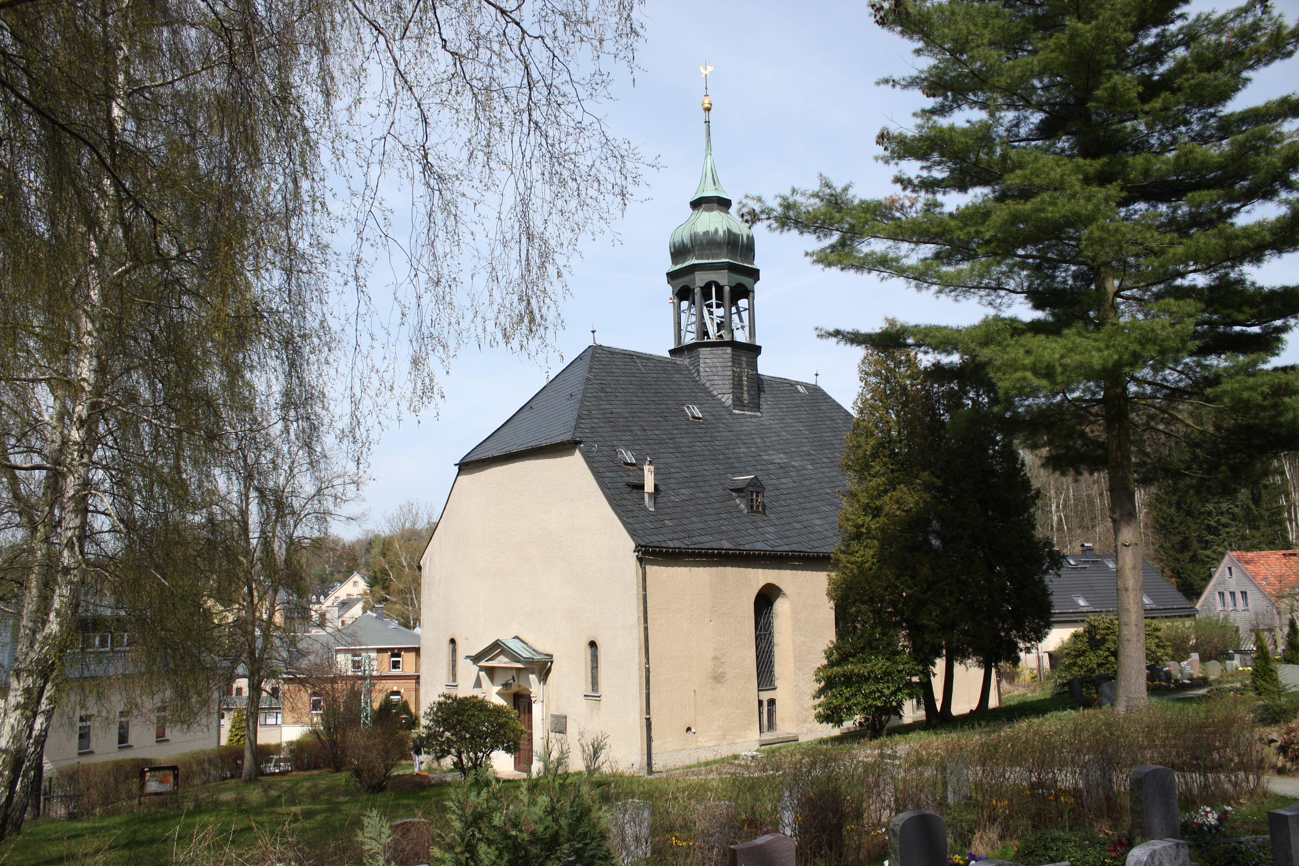 Martin-Luther-Kirche Kleinrückerswalde